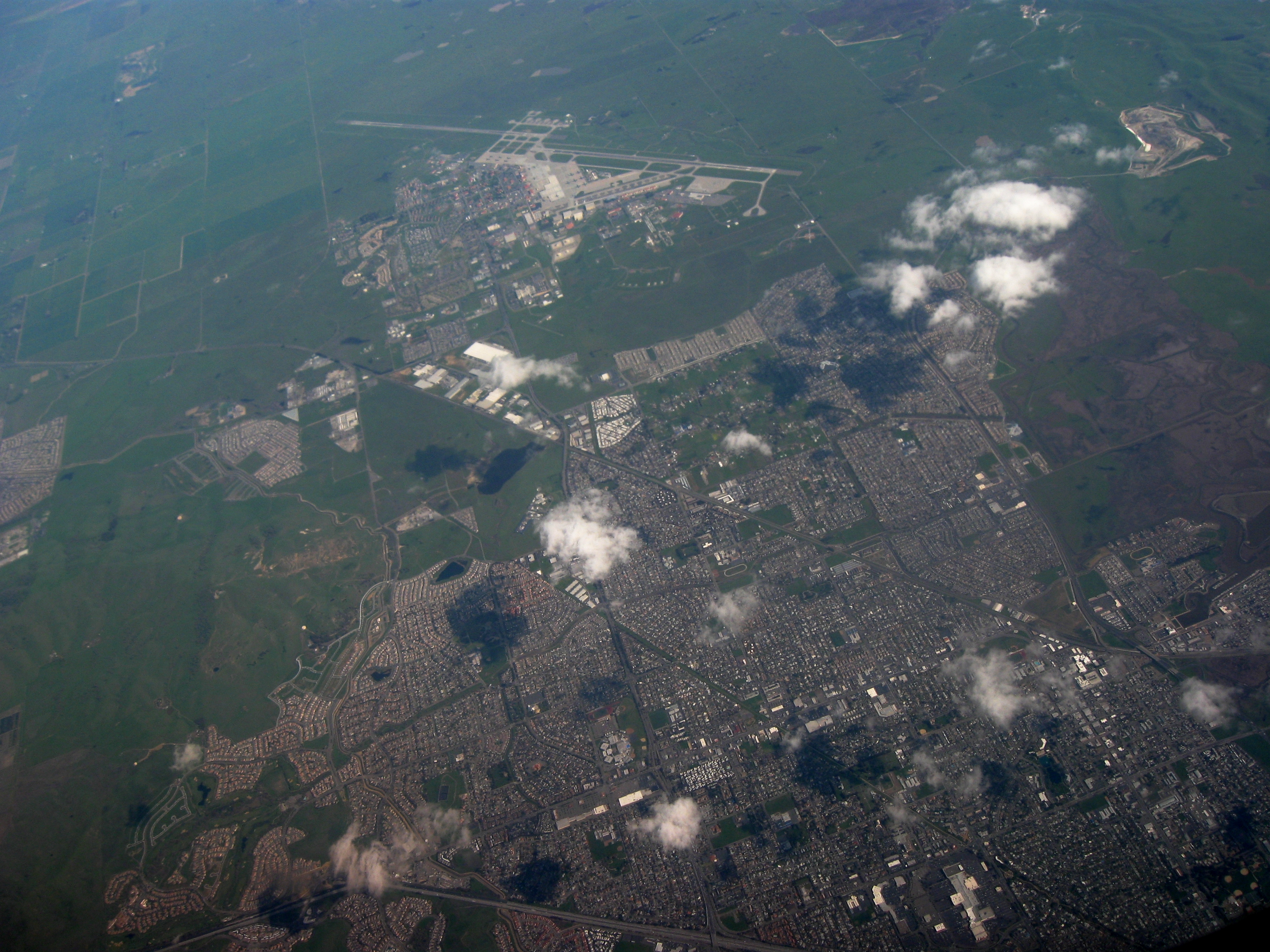 Aerial view of Fairfield, California.